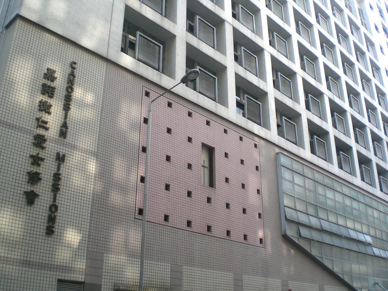 Author= DDMLL 嘉諾撒仁愛女修會, 堅道, Caine Road, Mid-levels, Central, Hong Kong 嘉諾撒聖心商科學校